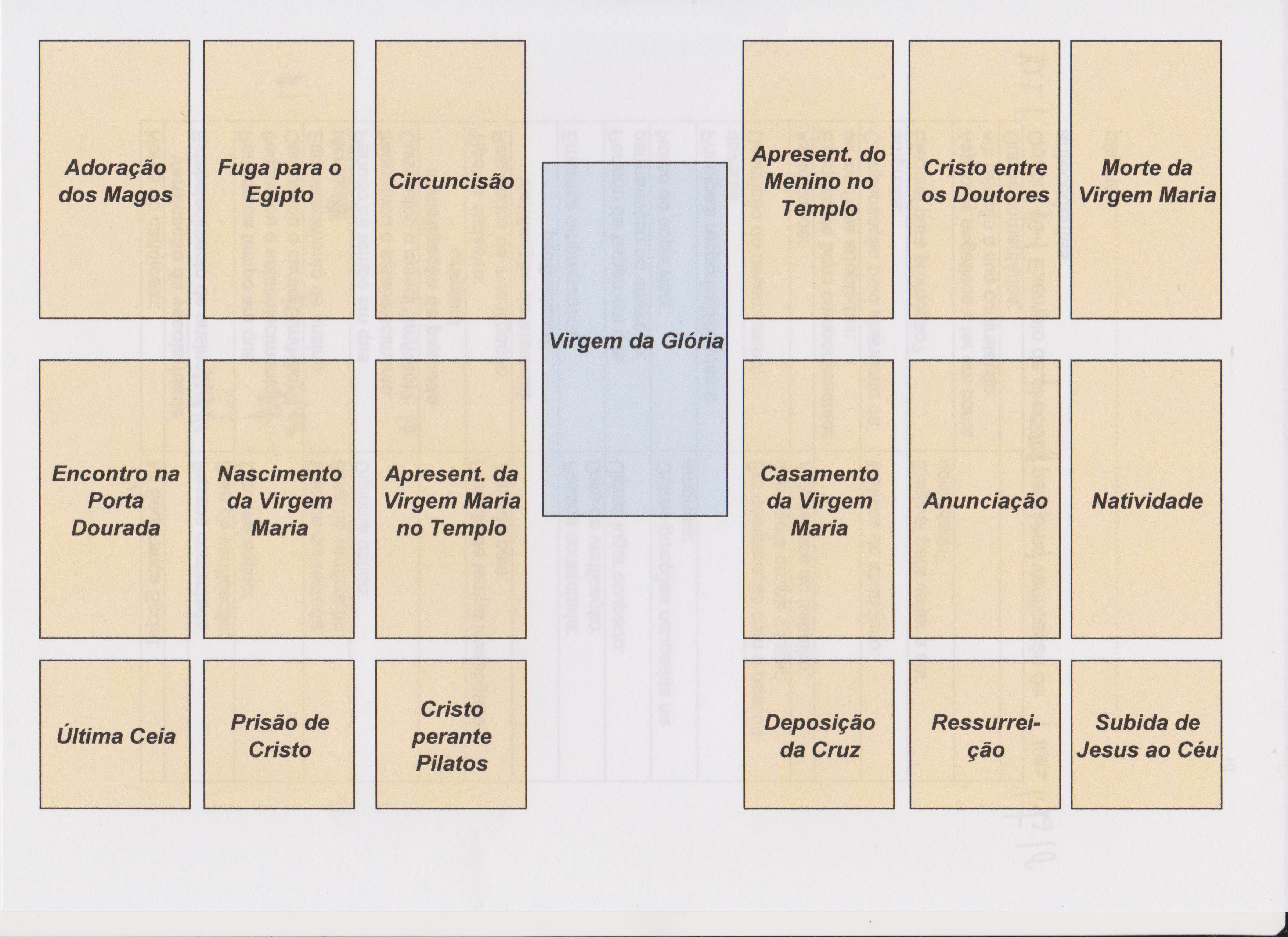 Reconstituição do Político da Sé de Évora de acordo com o proposto por Fernando Pereira em Imagens e Histórias de devoção. Espaço, Tempo e Narrativa na Pintura Portuguesa do Renascimento (1450-1550), tese de doutoramento em Ciências da Arte, Faculdade de Belas Artes da Univ. de Lisboa, policopiado, 2001, Volume II, pág. 51